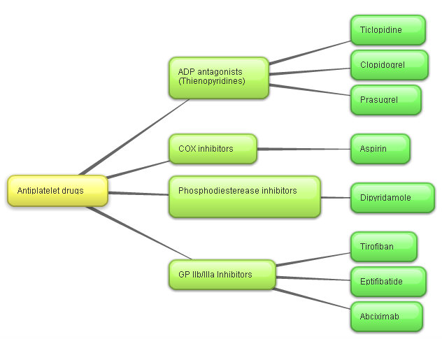 Antiplatelet agents classification